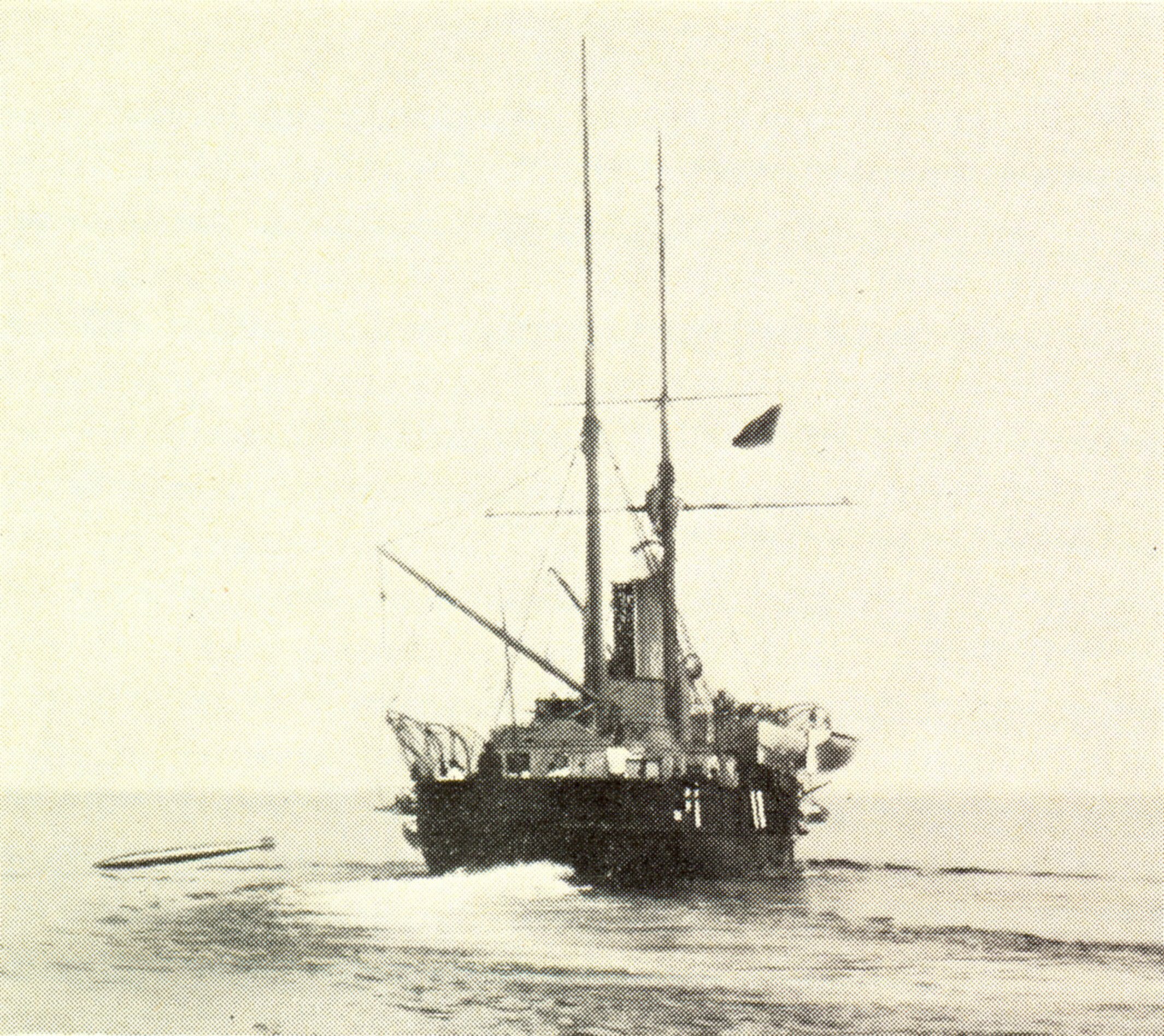 {da}Panserskonnerten Esbern Snare som Torpedoskib. {en}Danish Armoured Gunboat Esbern Snare serving as Torpedo Ship.